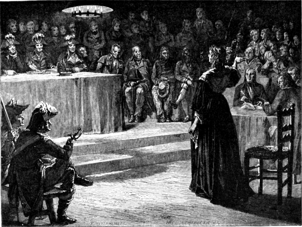 Queen Marie-Antoinette before the Revolutionary Tribunal